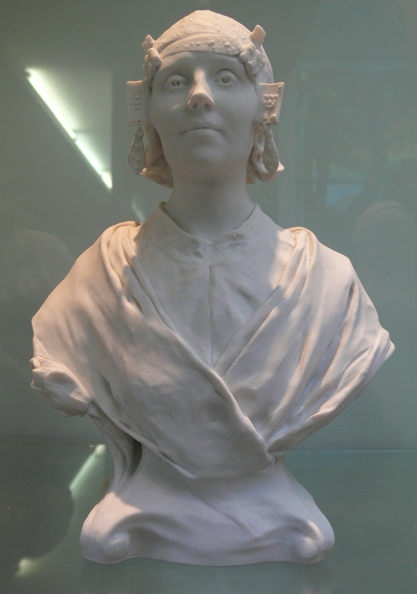 Sculpture made by the french sculptor Jean-Paul Aubé (1837-1916). Title : Buste de hollandaise.